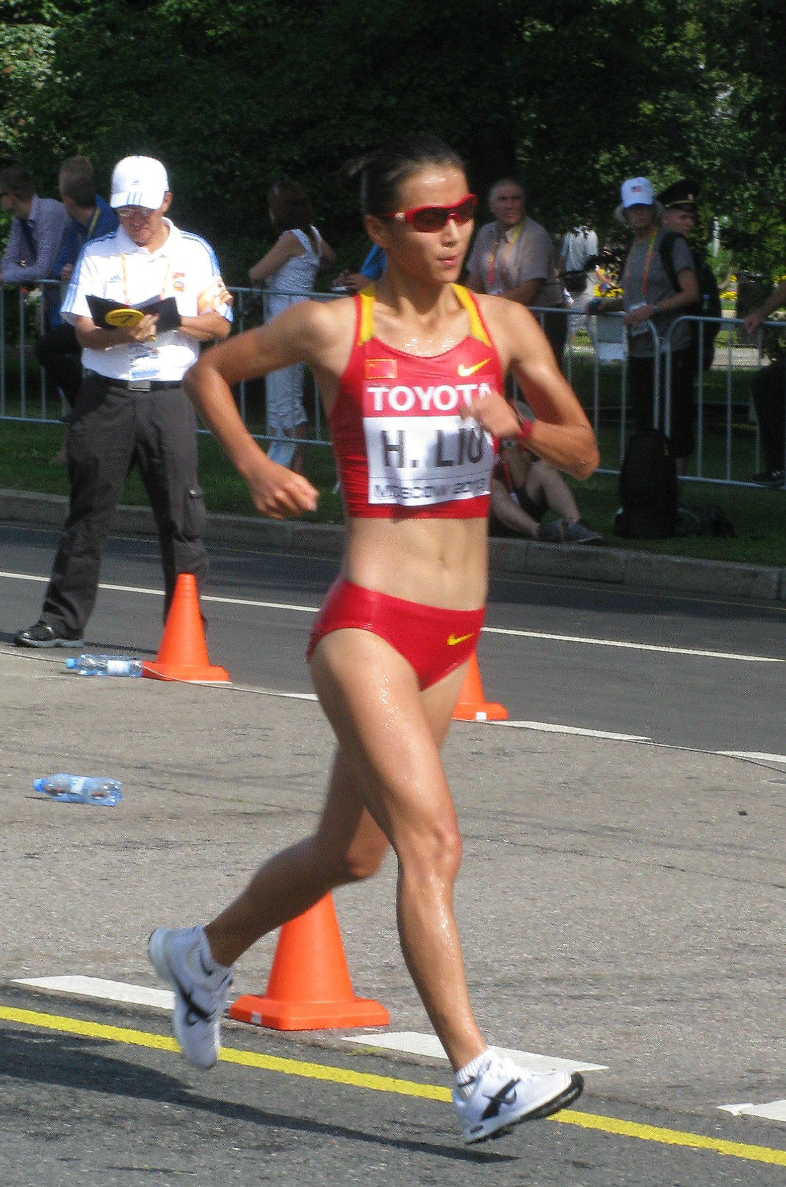 Liu Hong flying during Women's 20 kilometres walk at the 2013 World Championships in Athletics